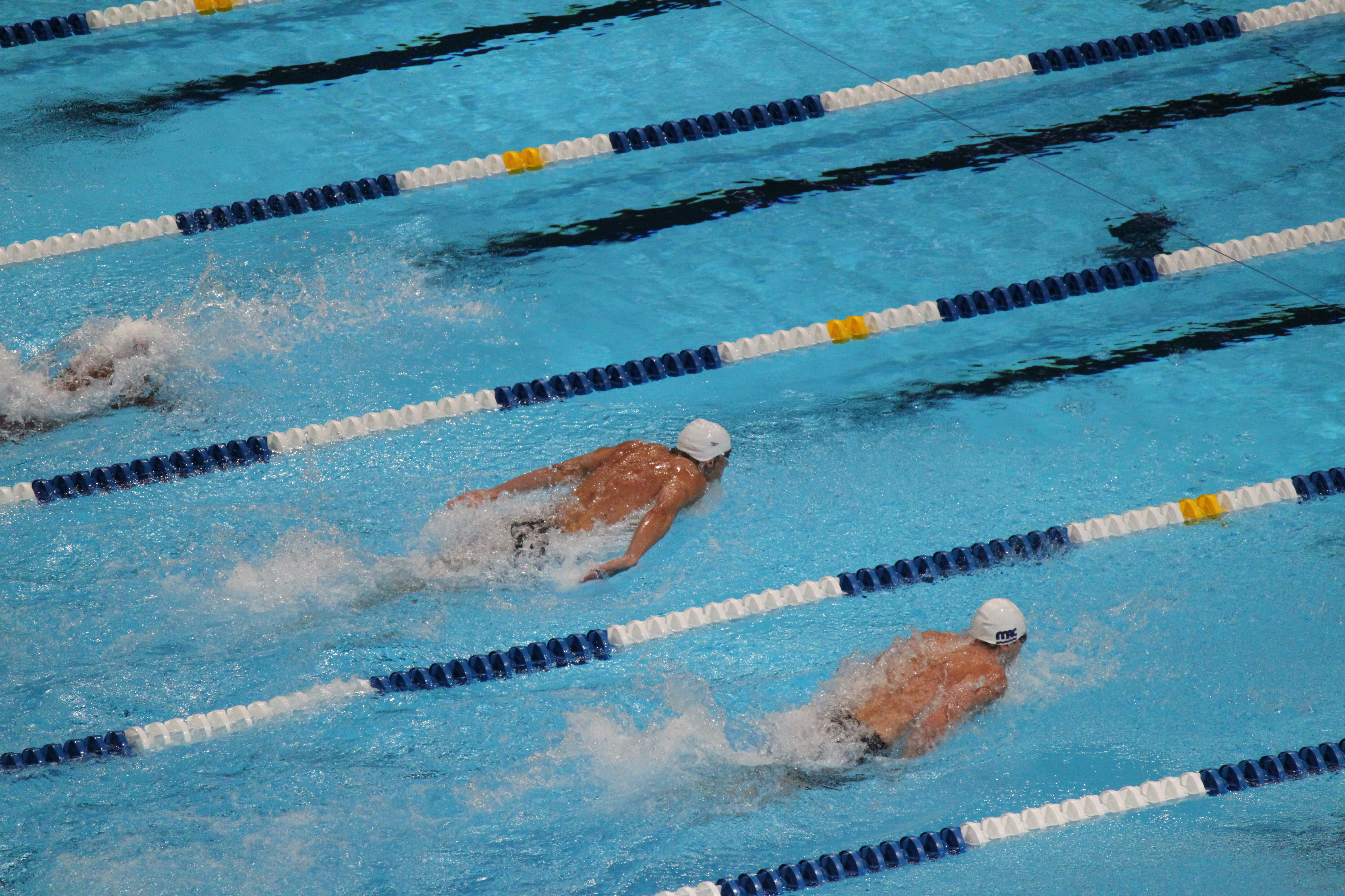 USA Swimming 2012 U.S. Olympic Team Trials - Swimming CenturyLink Center Omaha, Nebraska June 30, 2012 Michael Phelps - North Baltimore Aquatic Club Davis Tarwater - SwimMAC Carolina